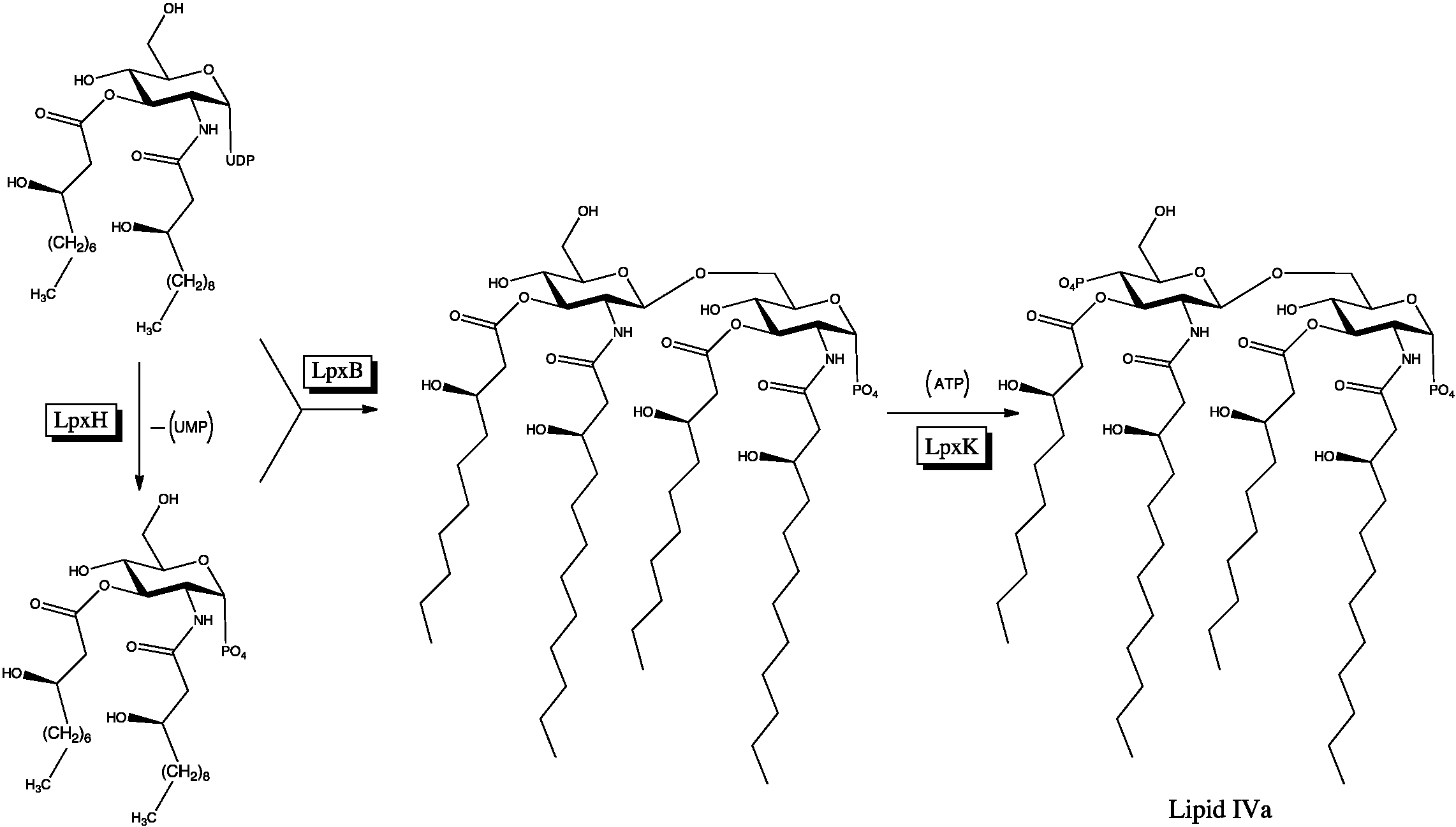 Biosynthesis of Lipid A: from Diacyl-UDP-GlcN t.o Lipid IV Synthesis as found in Pseudomonas aeruginosa. Original work created for Wikipedia. Review of the subject, King et al. (2009) Innate Immunity 15(5), pp.261-312